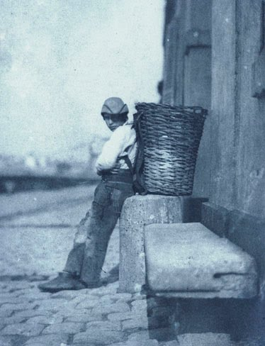 Le petit chiffonnier appuyé contre une borne